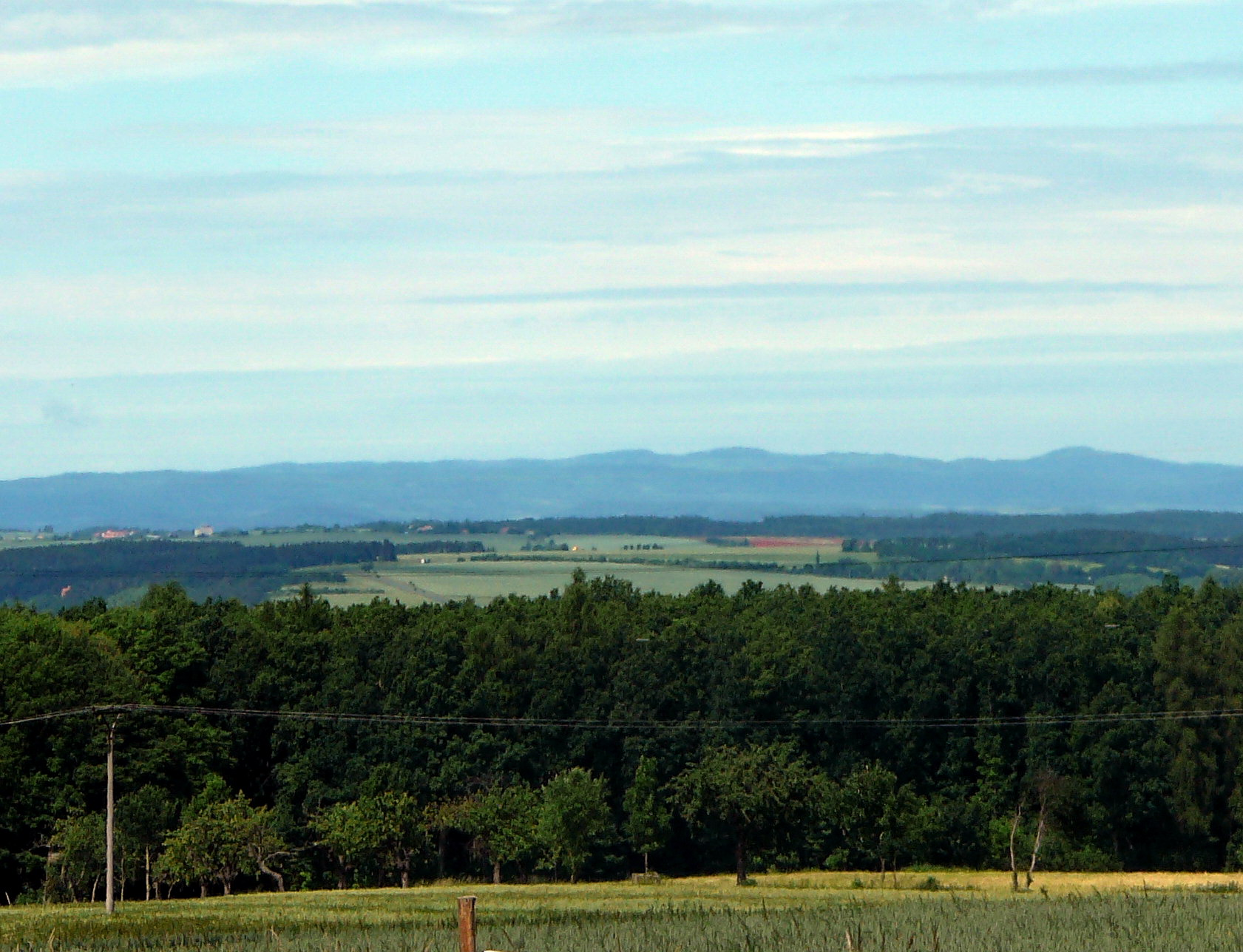 View of 50 km distant Doupov Mountains from Louštín hill. In the middle Hradiště mountain (934 m), on the left Pustý zámek mountain (928 m);Central Bohemia, the Czech Republic.